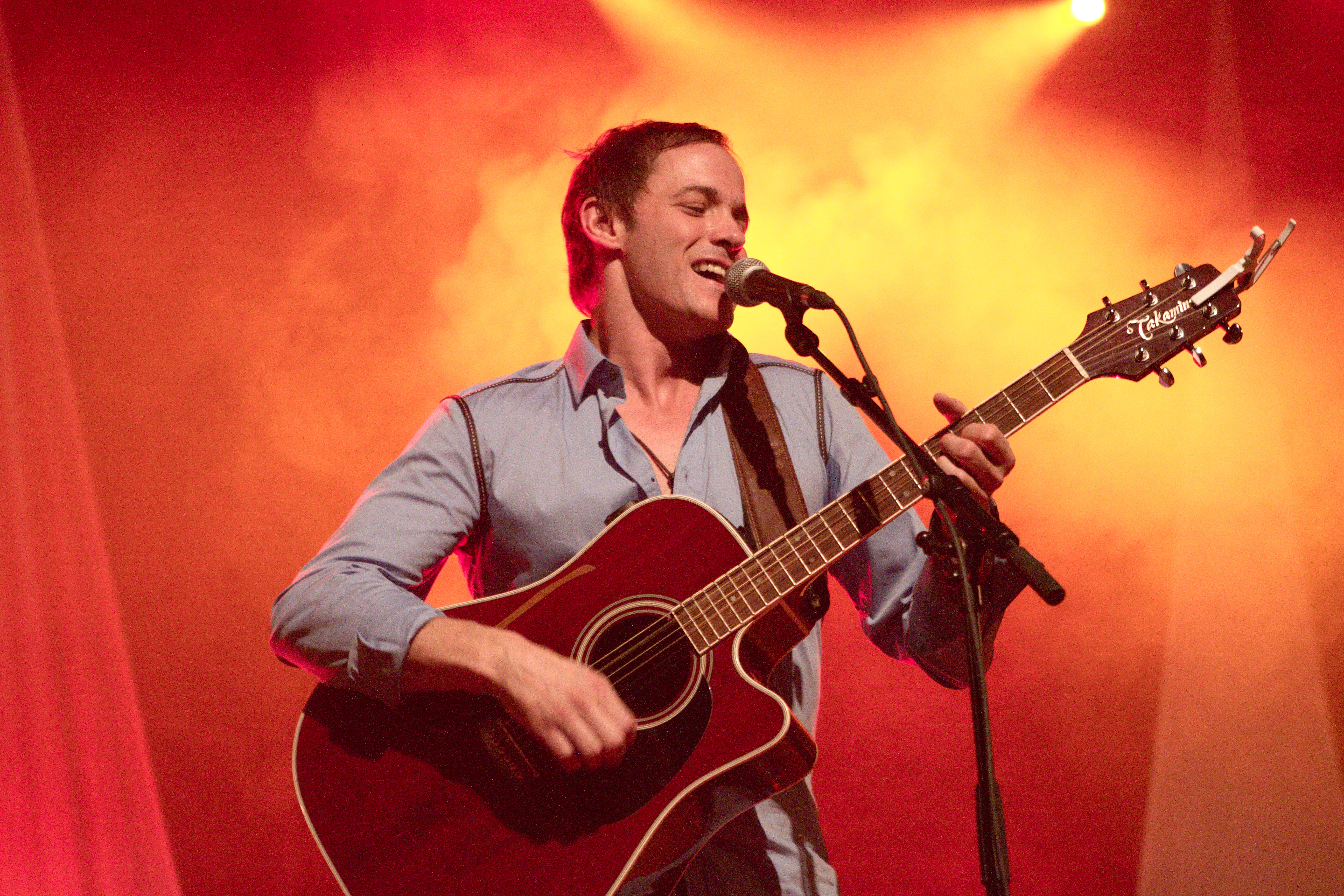 Christian Sbrocca live during the French song festival 2010 in Aix-en-Provence (France).